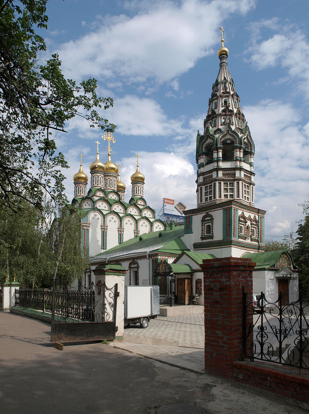 Church of Saint Nicholas in Khamovniki, Moscow (inside the church yard